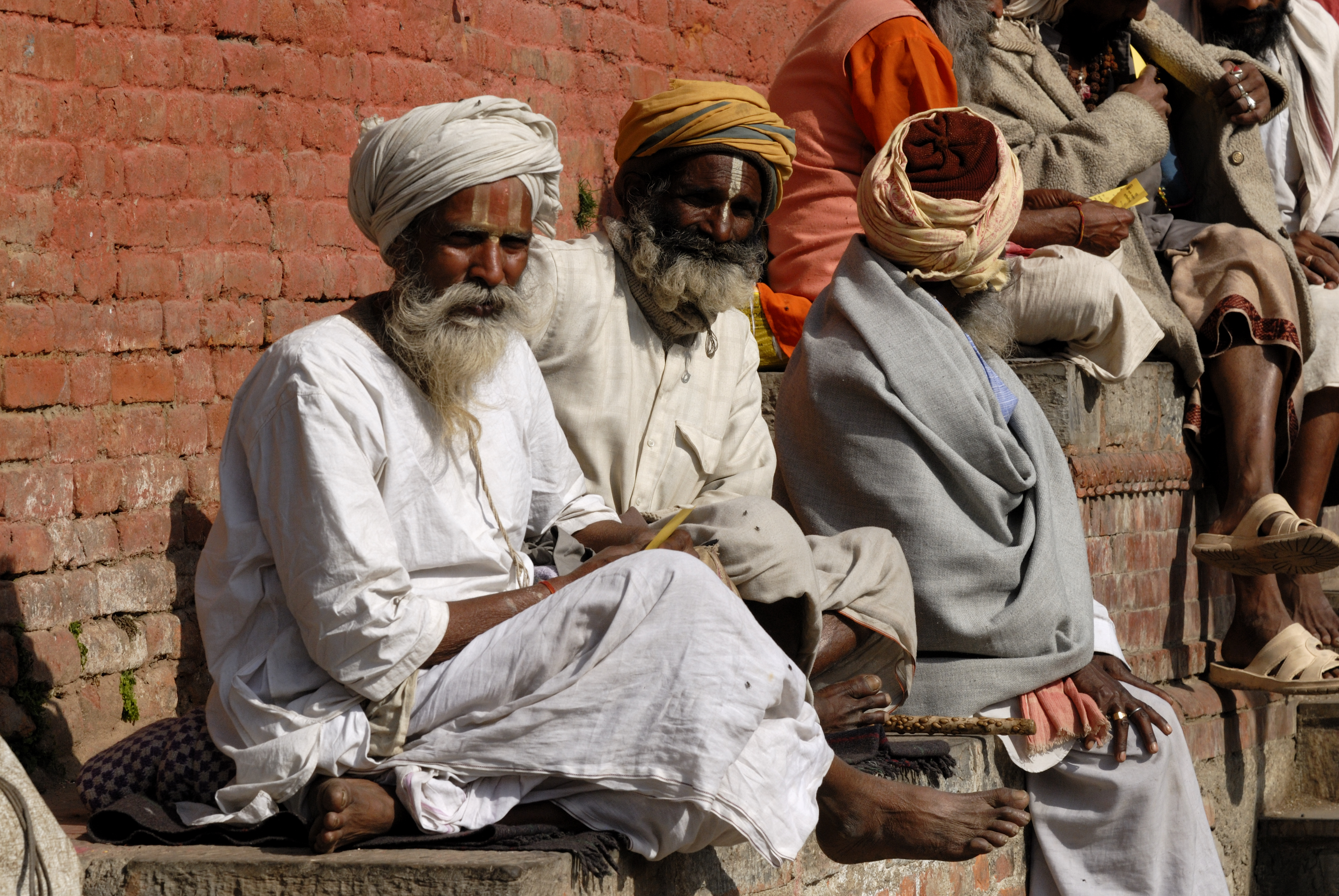 Sadhus at Shivaratri, Pashupatinath